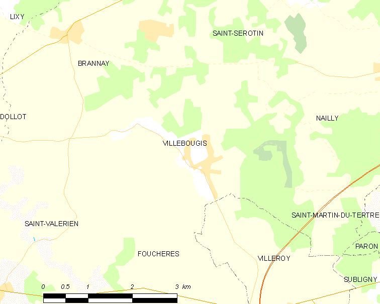 Map of French municipality Villebougis